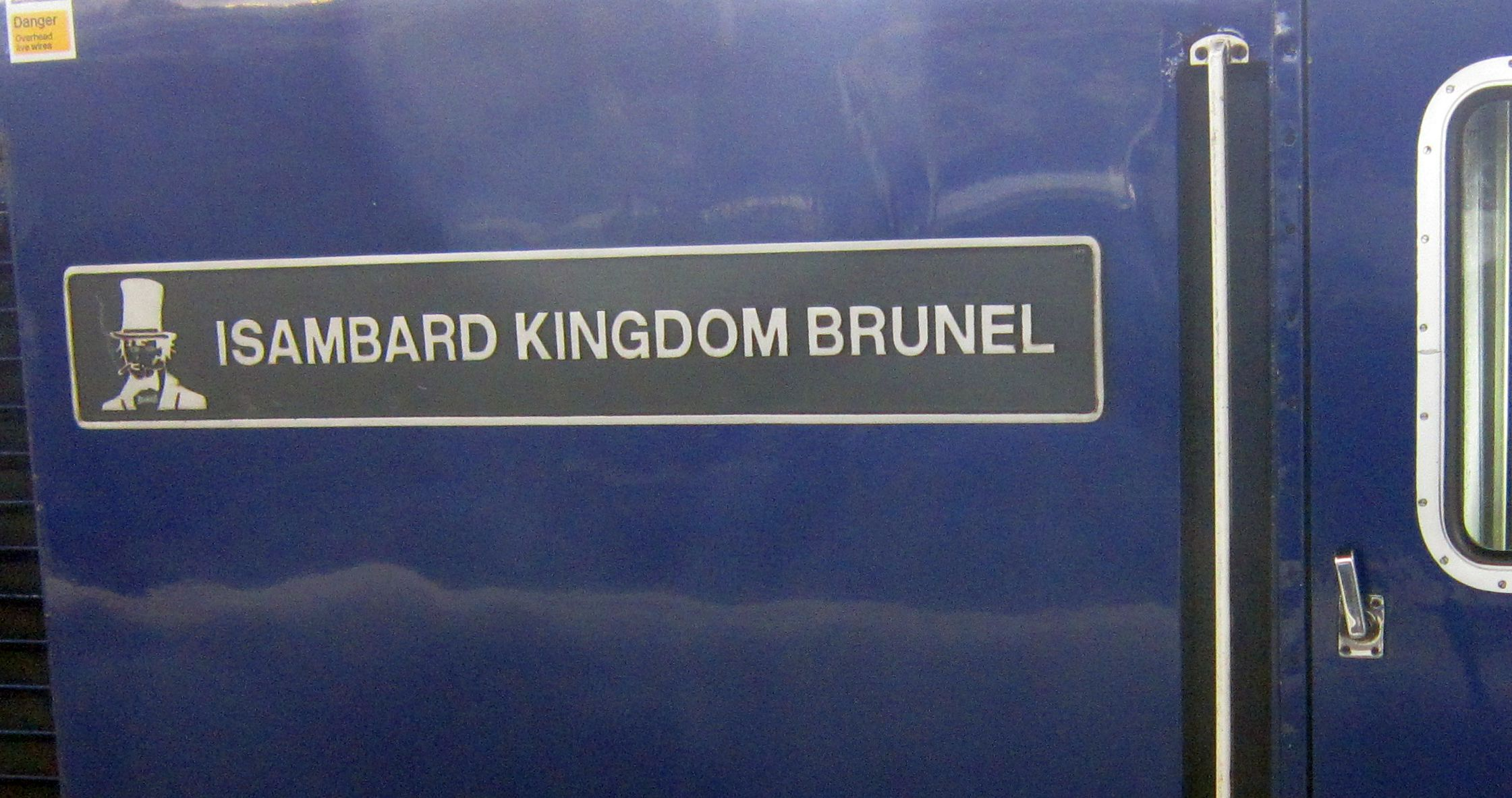 First Great Western HST power car 43003 is named after Isambard Kingdom Brunel